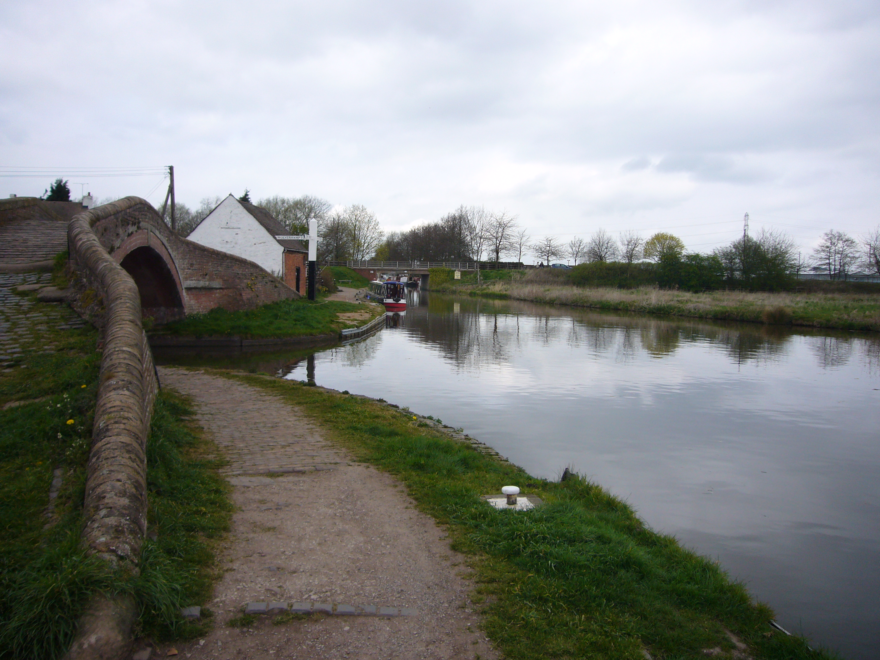 Haywood Junction, taken by me (Greg Pearce) on 9th April 2007. The view is from the Trent and Mersey Canal looking in the Potteries direction, with the Staffordshire and Worcestershire Canal joining on the left.